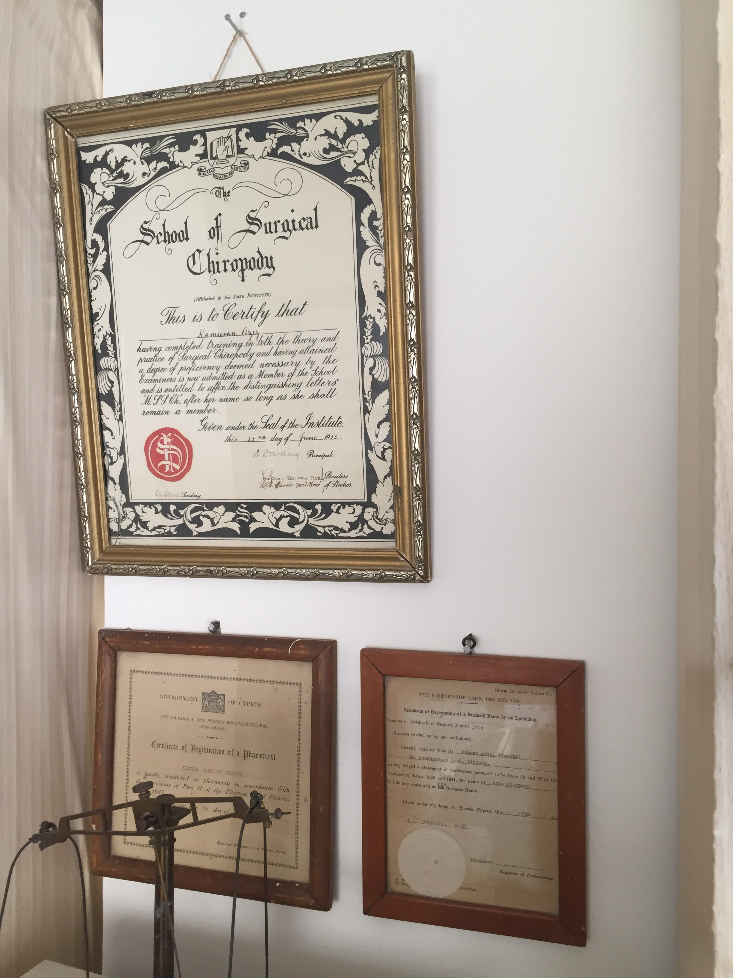 The Pharmacy Museum in North Nicosia, located at the Turkish Cypriot Pharmacists' Association headquarters, exhibiting artifacts from Kamran Aziz's pharmacy. This photo shows the various certificates Aziz received.